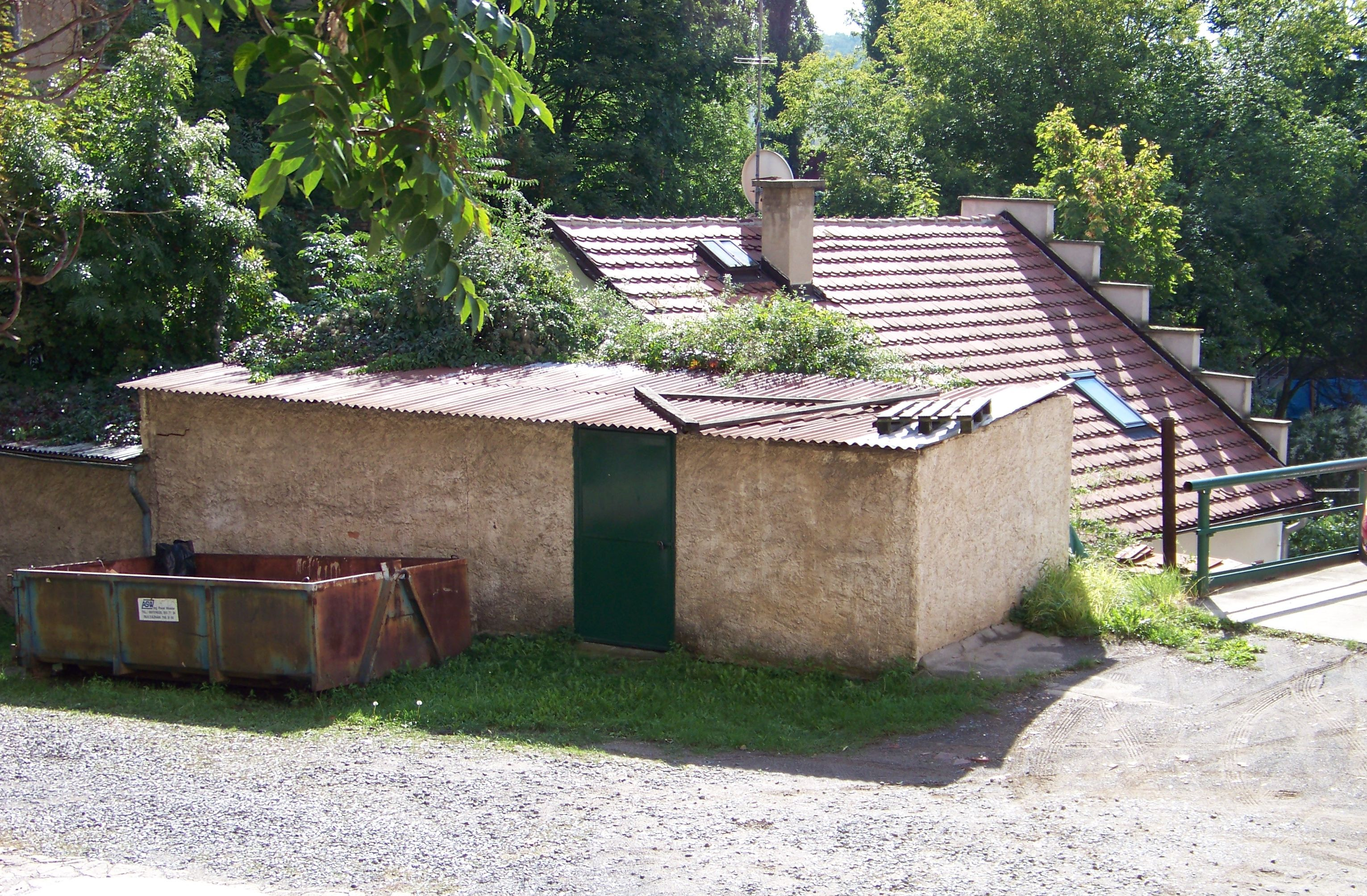 Prague-Vršovice, the Czech Republic. Pod stupni 144/6.